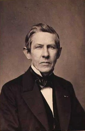 Carl Ludvig Müller (1809-1891), Danish numismatist and curator